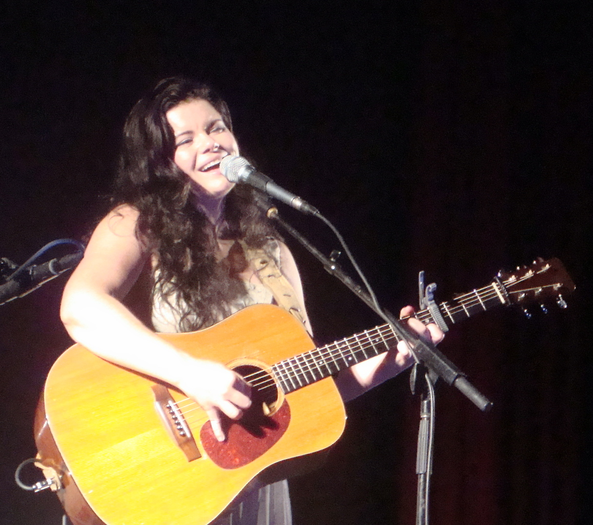 Rebecca Loebe making her debut performance at the 2013 Woody Guthrie Folk Festival. Taken at the Pastures of Plenty stage on July 12, 2013.